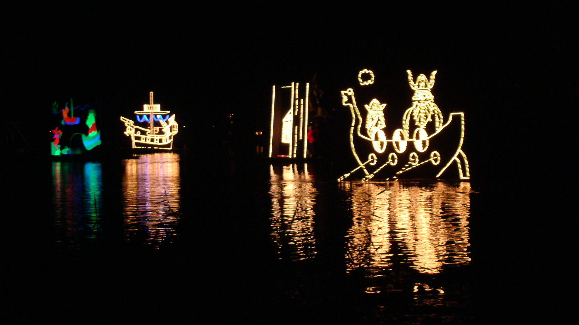 Gondola lightshow at Bredevoort 2008